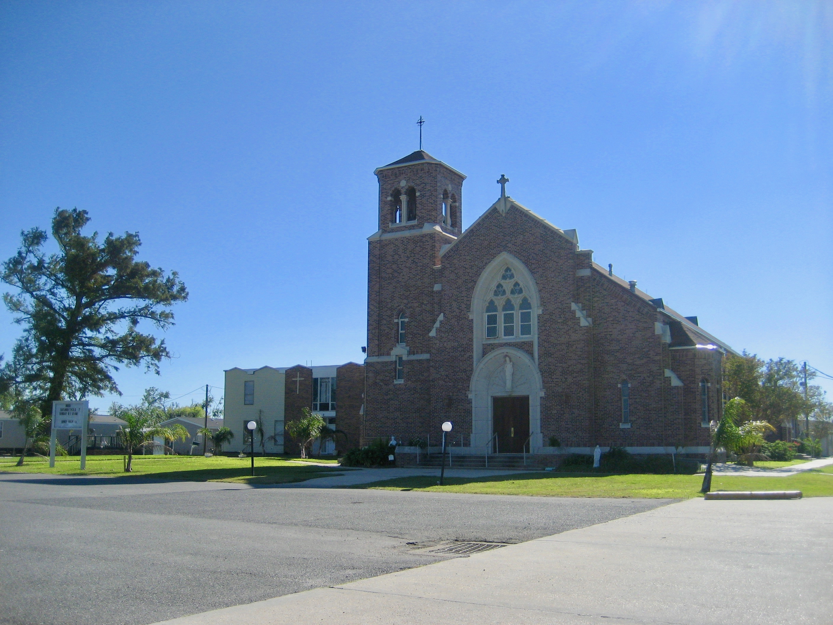 St. Patrick's Catholic Church, Homeplace, Plaquemines Parish, Louisiana.